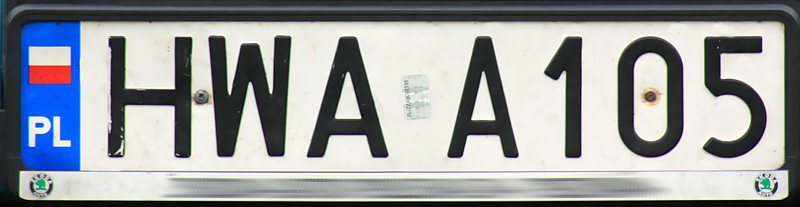 Polish border guard registration plate (2000 - 2006 series)